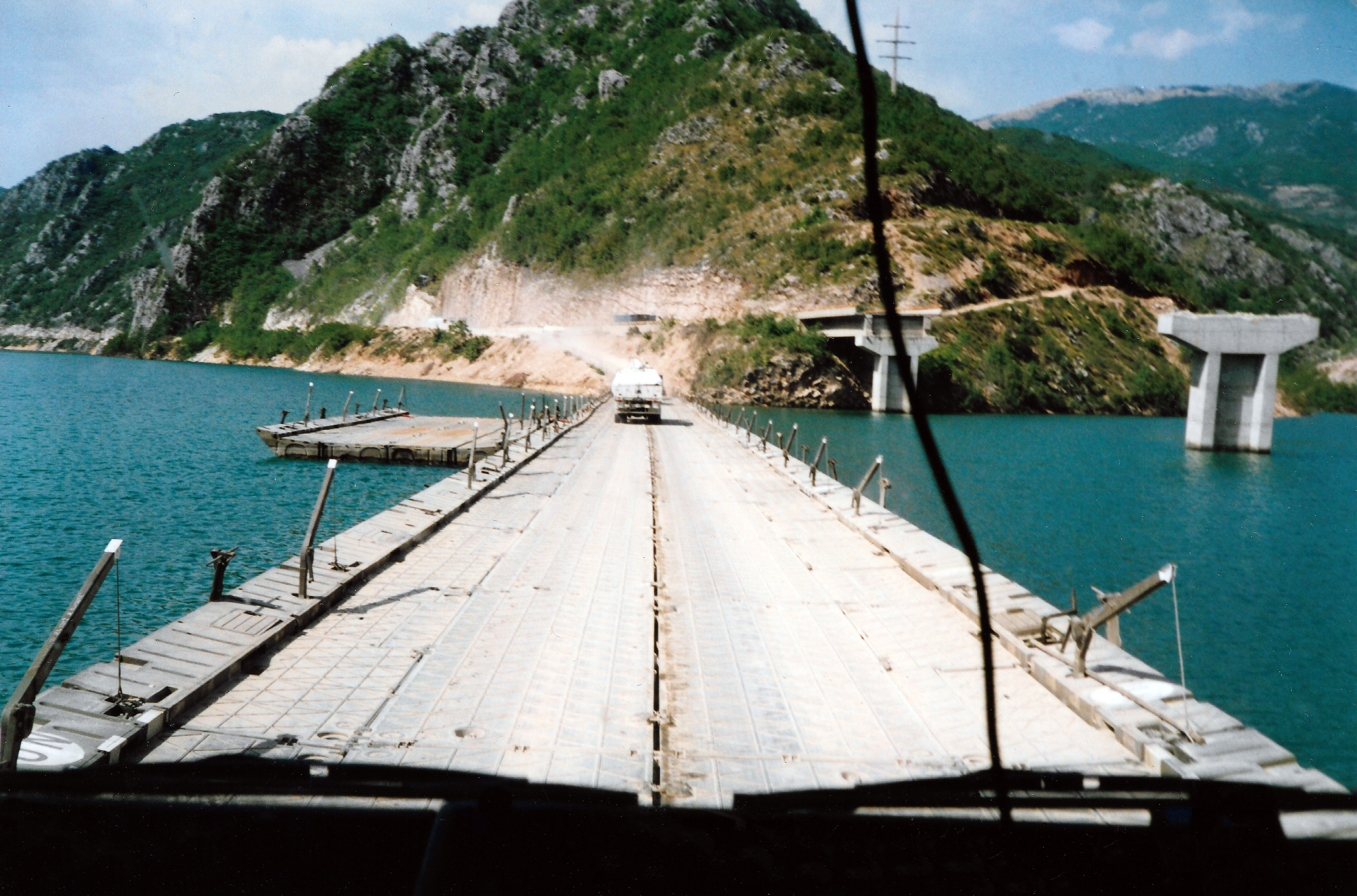 Dutch UN Transportbatallion crossing a Pontoon bridge over the river Neretva from the M17 towards the west with, Bosnia and Herzegovina